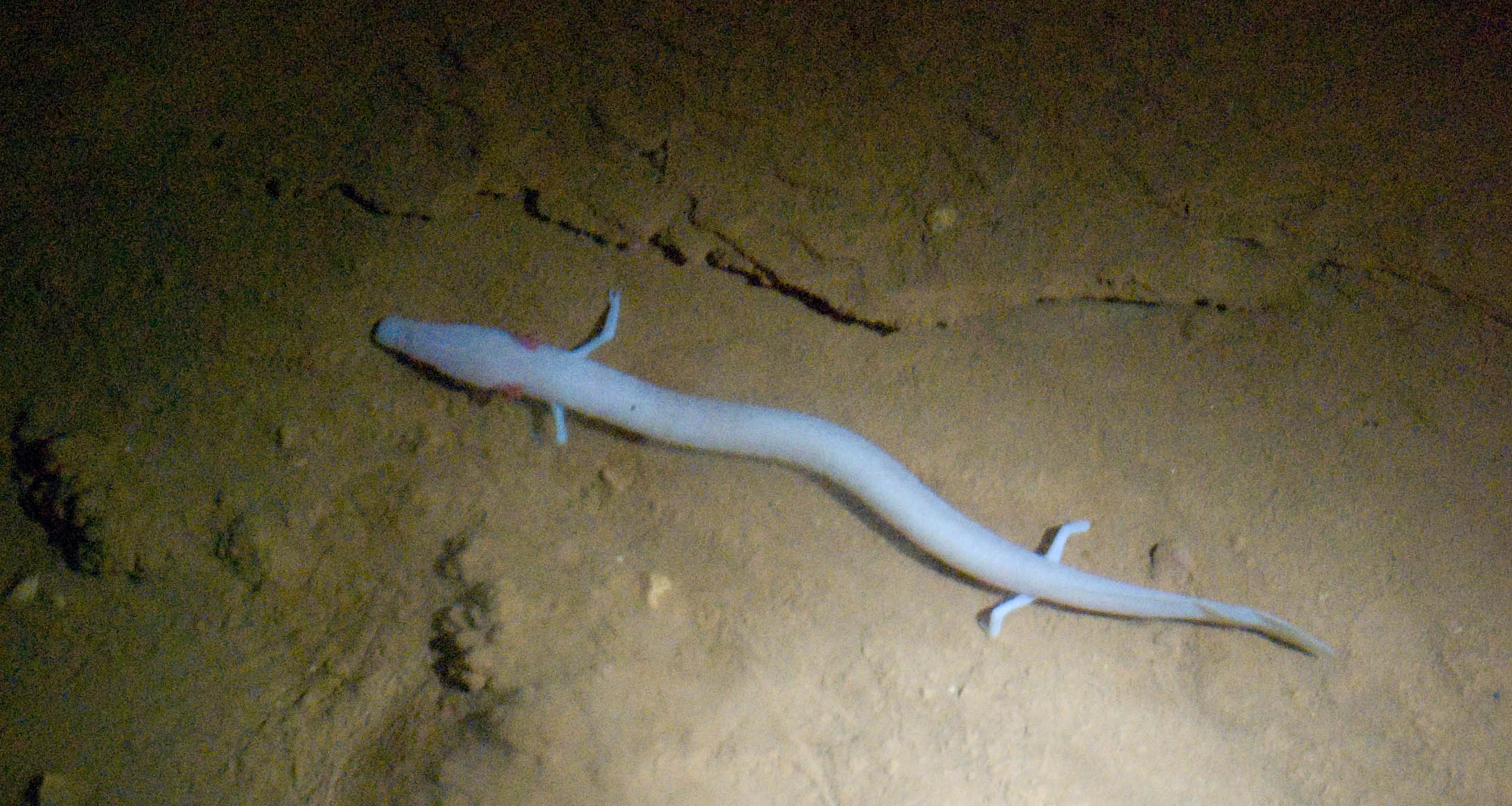 The olmSlovenščina: Človeška ribica